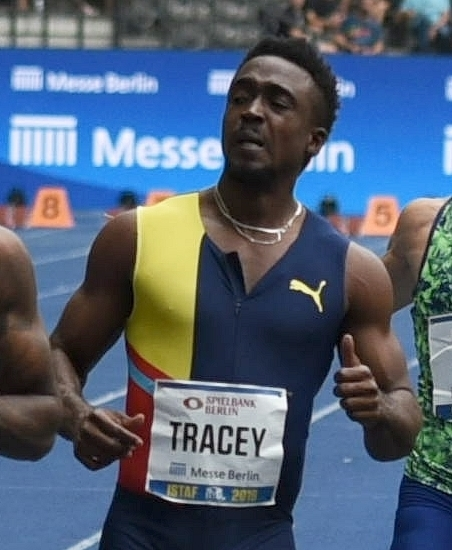 100 m men at the ISTAF 2019 on 1 September 2019 in Berlin, Germany.